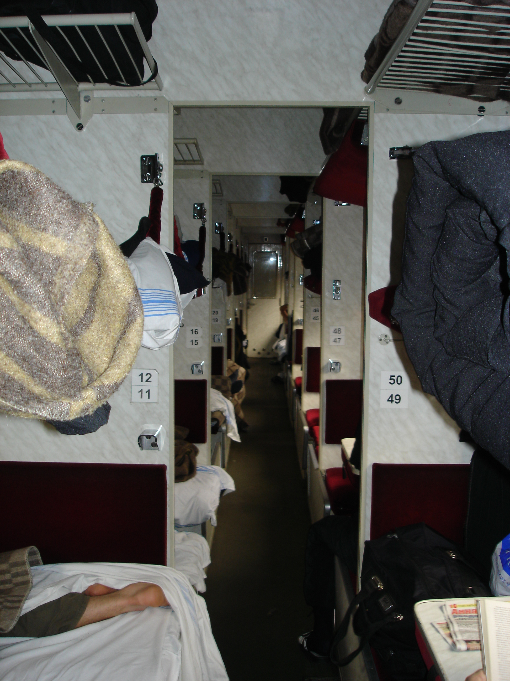 Plackartnyj